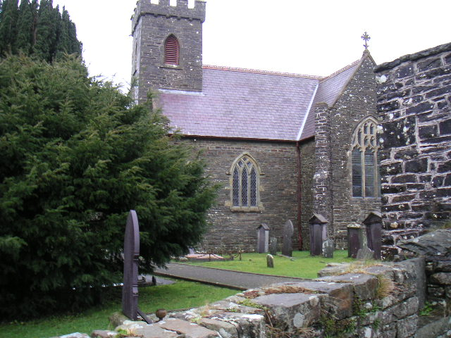 Church at Capel Dewi